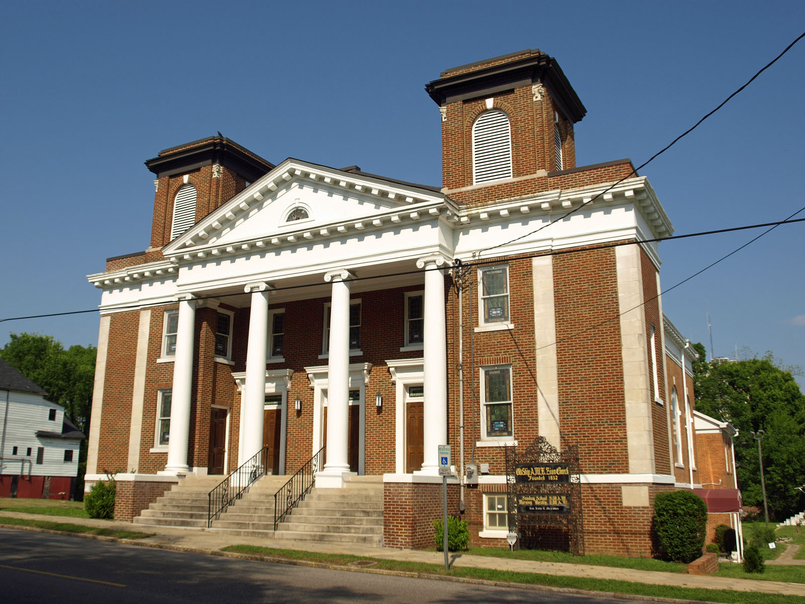 Front (west) side of the Old Ship A.M.E. Zion Church in Montgomery, Alabama